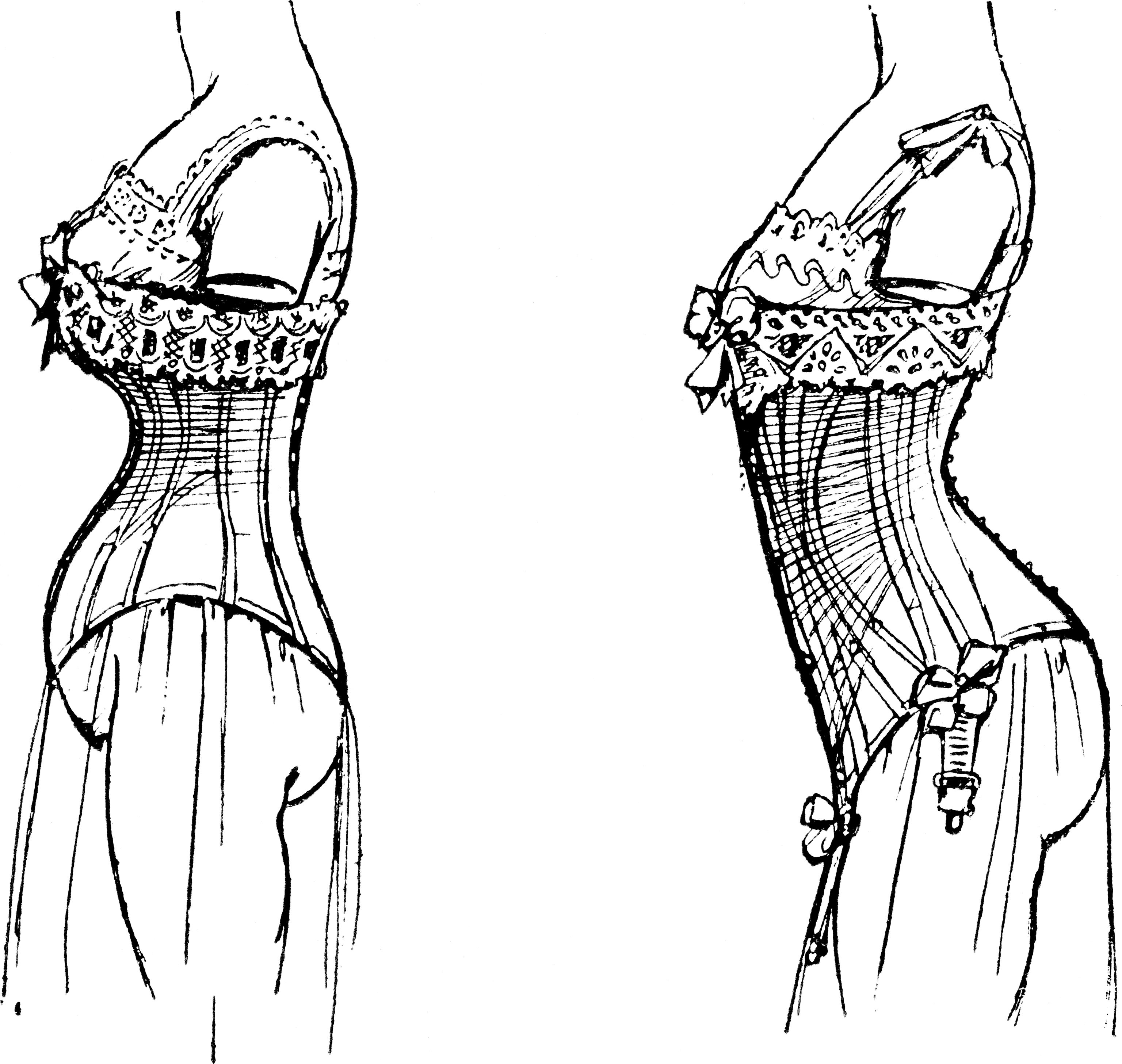 Deformation of the line of the abdomen and kidneys by the corset.Left: fashionable corset about twenty years ago. The abdomen is cut in half, the chest is raised and the belly strongly bloated. The kidneys, however, retain their normal curvature. Right: Newer fashion corset. While being "right in front of", according to the standard formula, he strongly rejects the rump backwards and produces the saddle or exaggerated curbure of the kidneys.